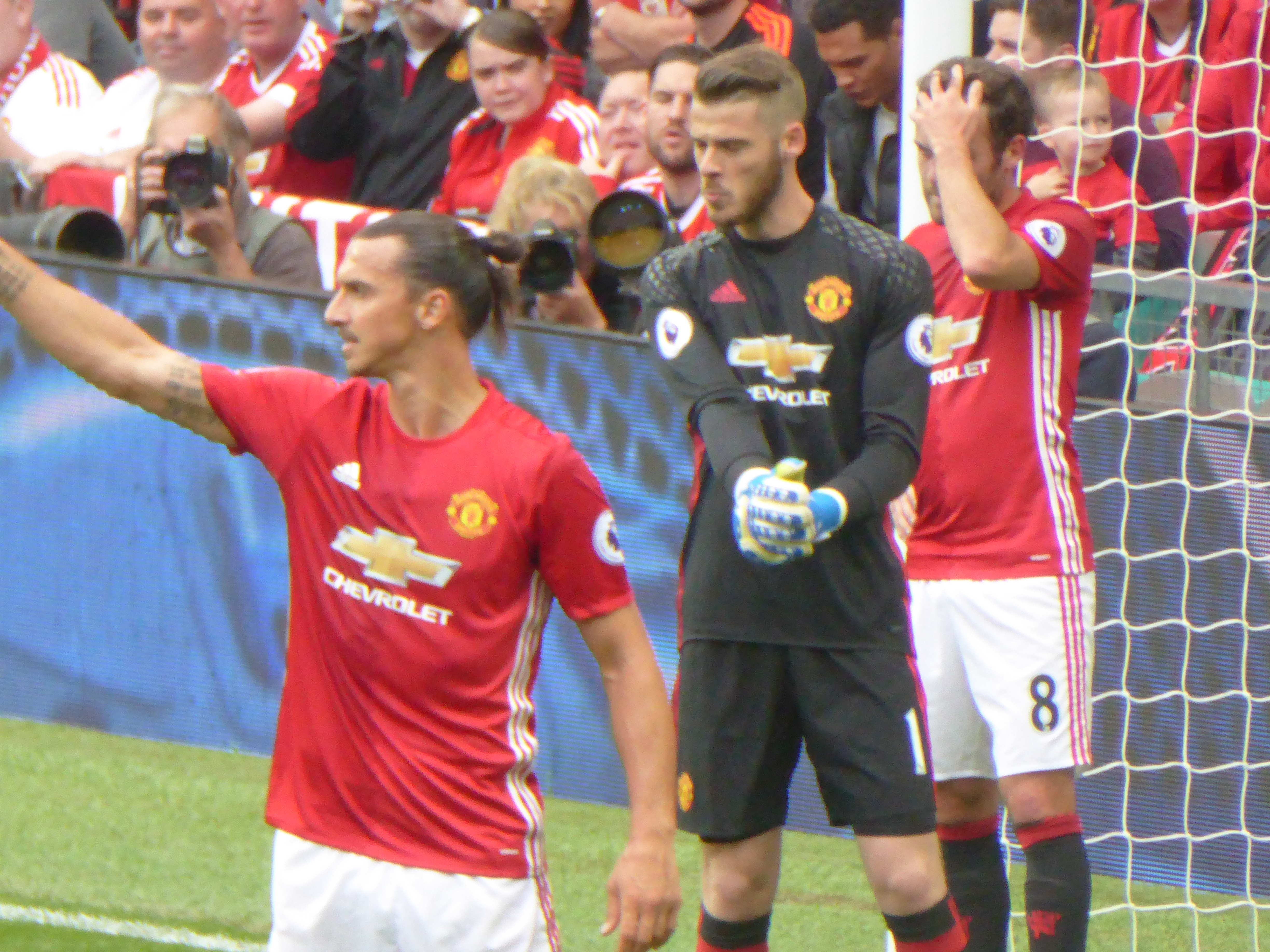 Manchester United v Leicester City (4-1), Old Trafford, Manchester, Greater Manchester, England, September 2016